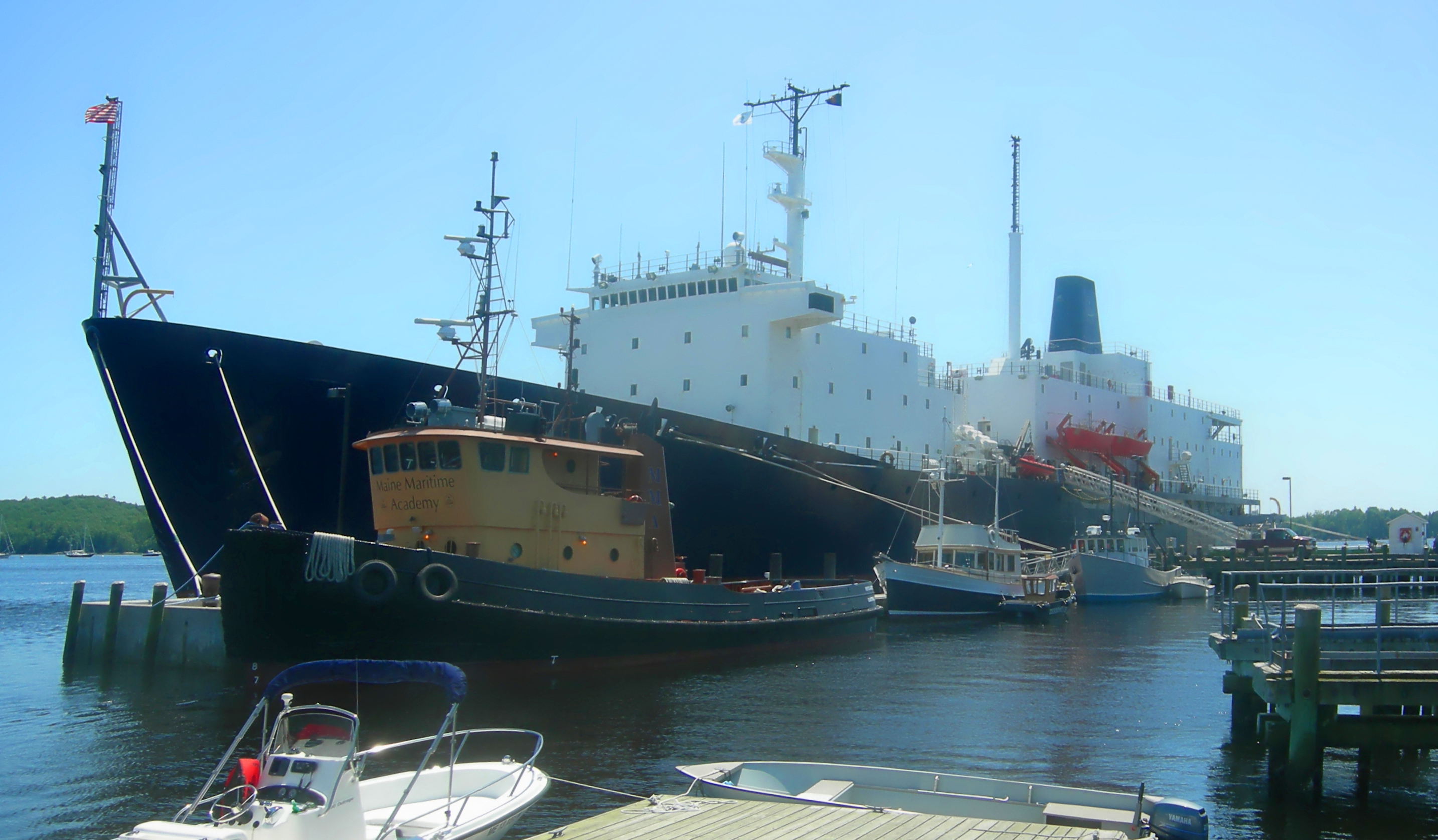 TS "State of Maine", the 565-foot, 12,500 gross ton training ship of the Maine Maritime Academy in its home port of Castine, Maine